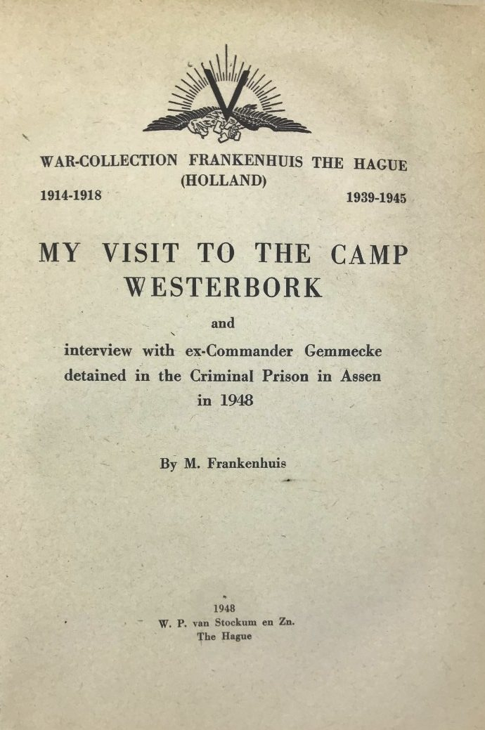 Frankenhuis' Interview with Westerbork's ex-Commander Gemmecke